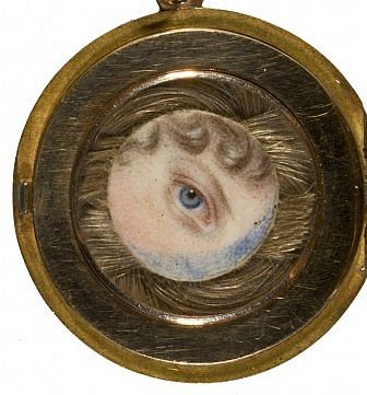 The Eye of Princess Charlotte of Wales, 1796 - 1817 by Charlotte Jones - detail of inside of gold locket now in the UK National Gallery. Made of gold, hair, ivorey, and water colour